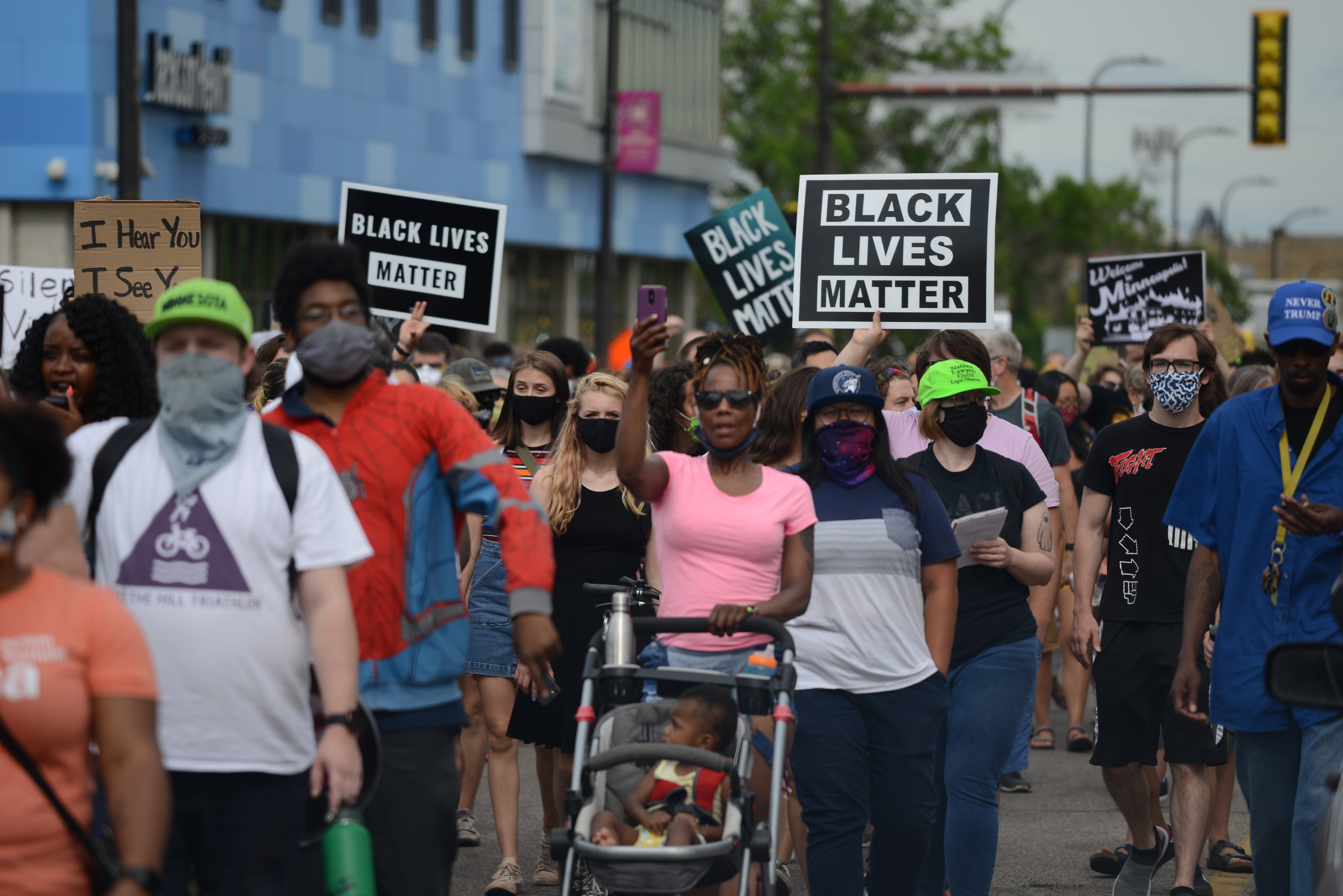 West Broadway between Aldrich and Bryant, Minneapolis, Minnesota June 19, 2020 Crowds of people celebrated Juneteenth in north Minneapolis. The themes were community, love, unity, resilience, and the ongoing fight for justice, freedom, and equality. There was also free food, toys, masks, and live music. Around 4:30pm, hundreds of participants joined a Juneteenth March for Justice and marched down Broadway. "Juneteenth (a portmanteau of June and nineteenth; also known as Freedom Day, Jubilee Day, Liberation Day, and Emancipation Day) is a holiday celebrating the liberation of those who had been held as slaves in the United States. Originating in Texas, it is now celebrated annually on the 19th of June throughout the United States, with varying official recognition. Specifically, it commemorates Union army general Gordon Granger announcing federal orders in Galveston, Texas, on June 19, 1865, proclaiming that all people held as slaves in Texas were free." -Wikipedia On May 25, Minneapolis Police officers arrested George Floyd, handcuffed him, then held him down on his stomach while Derek Chauvin put a knee on his neck as Floyd pleaded for breath. George Floyd died soon after. The four officers at the scene have been fired. Derek Chauvin has been arrested and charged with murder and manslaughter. 2020-06-19 This is licensed under the Creative Commons Attribution License. Give attribution to: Fibonacci Blue